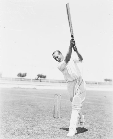 Photograph of English cricketer Douglas Jardine demonstrating his batting, New South Wales, Australia.